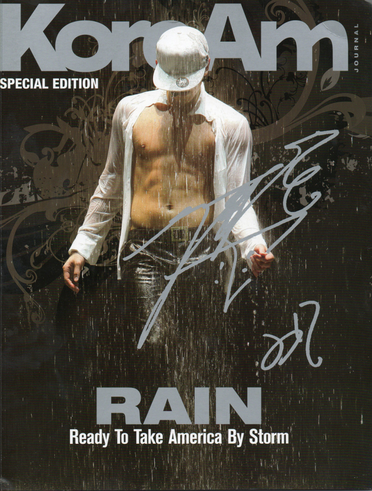 Magazine cover of KoreAm from June 2007. Rain (entertainer)